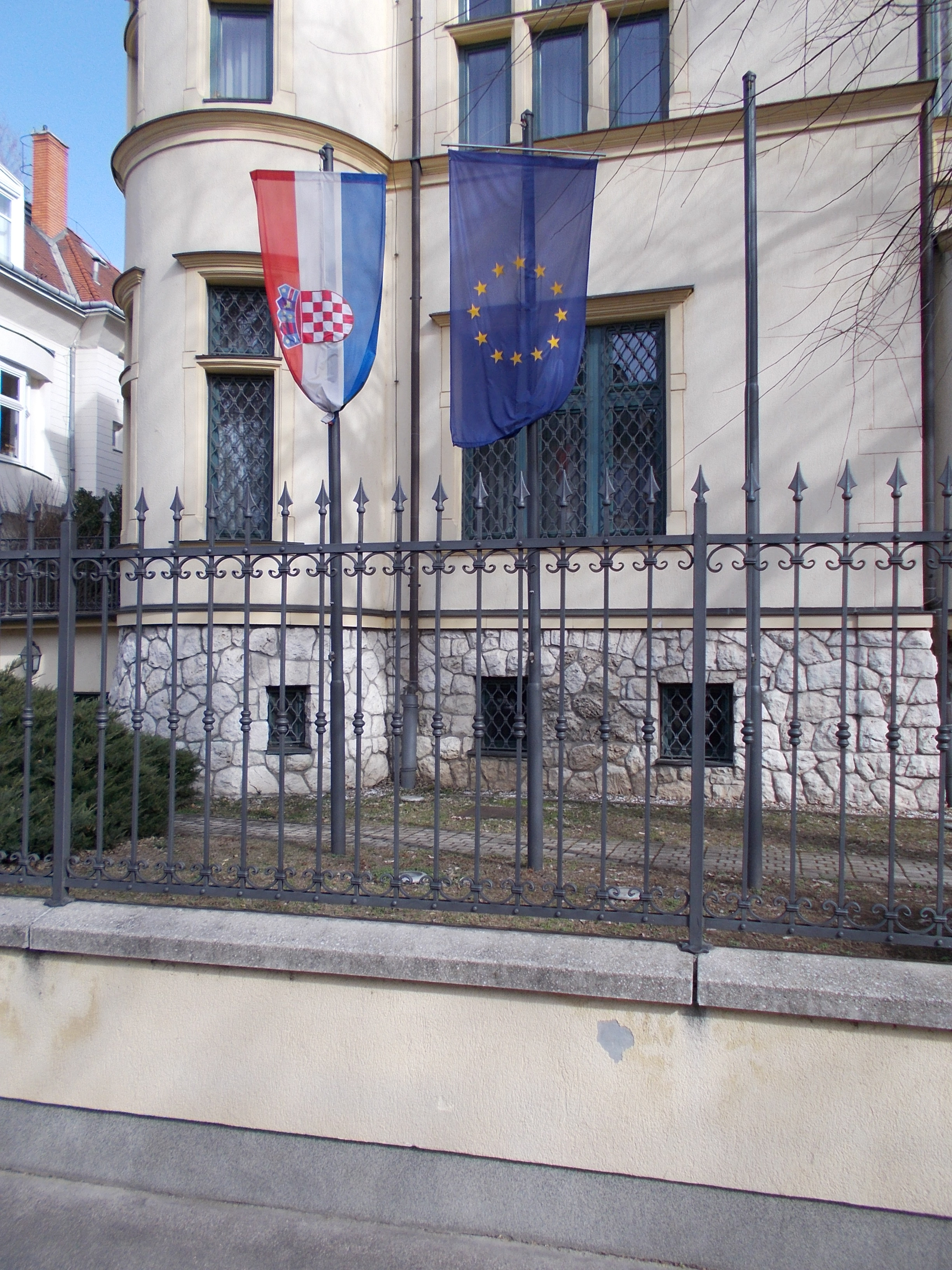 Croatian Embassy, Budapest. Flags in the garden. - 15 Munkácsy Mihály Street, District VI of Budapest.